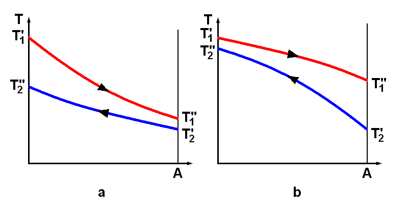 Temperatures in countercurrent flow in a heat exchanger.